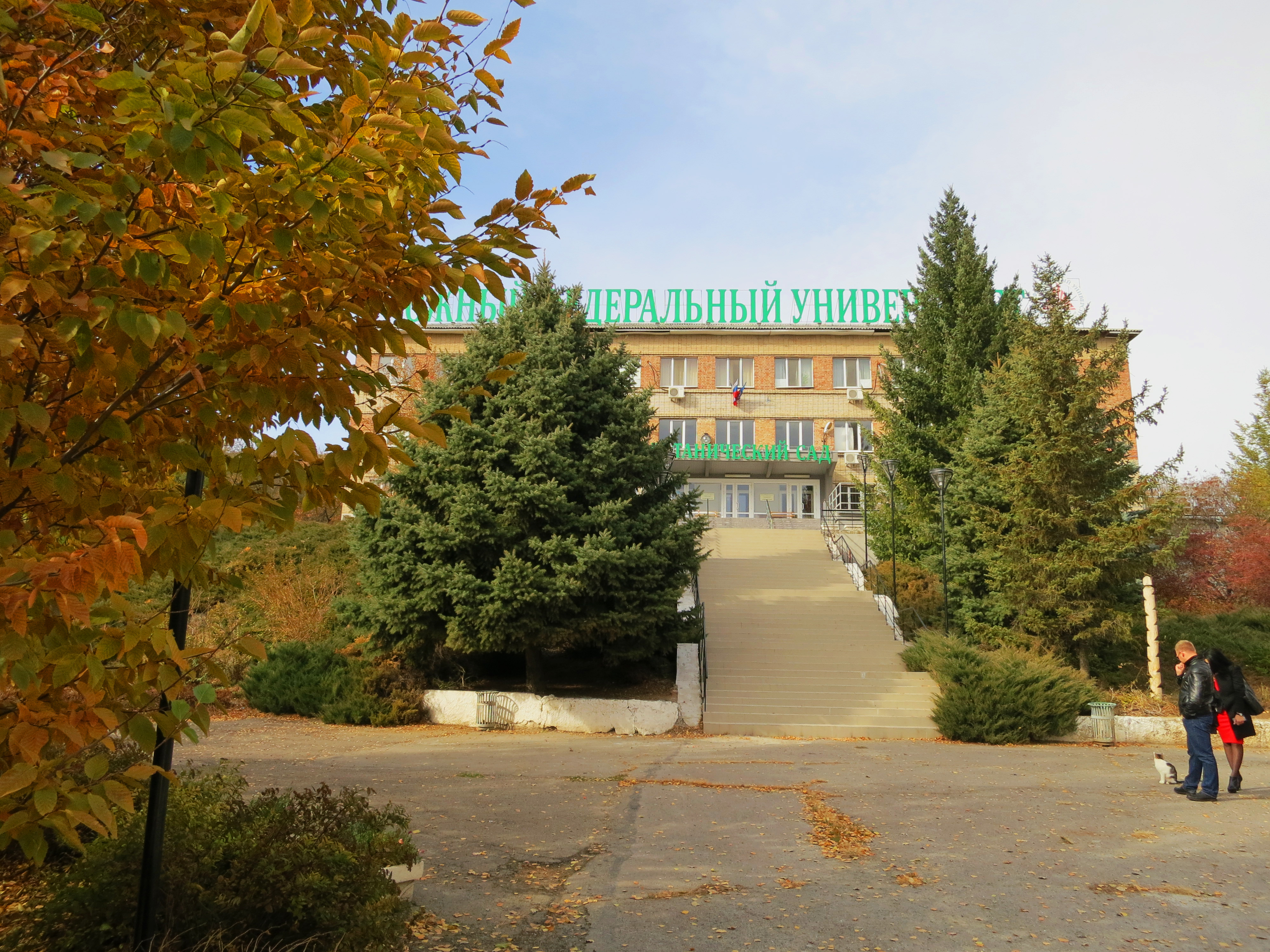 Botanical garden in Rostov-on-Don. Administrative office building. This image is related to the protected area of Russia number 6110114